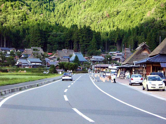 This photo is a view Japanese Kyoto prefecture route 38 (Kyoto-Hirogawara-Miyama line), near the village of Miyama thatched-roof houses. Many tourists come to feel Japanese old natural life style.